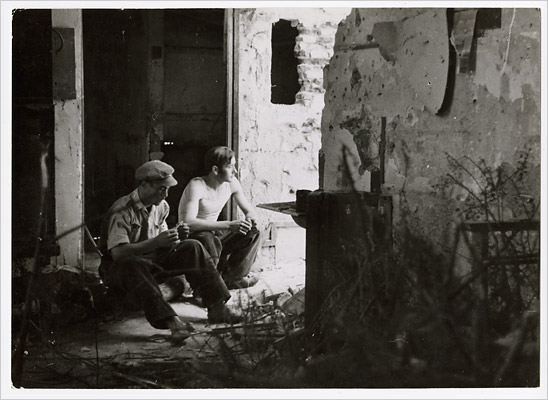 Republican dinamiteros, in the Carabanchel neighborhood of Madrid, June 1937.